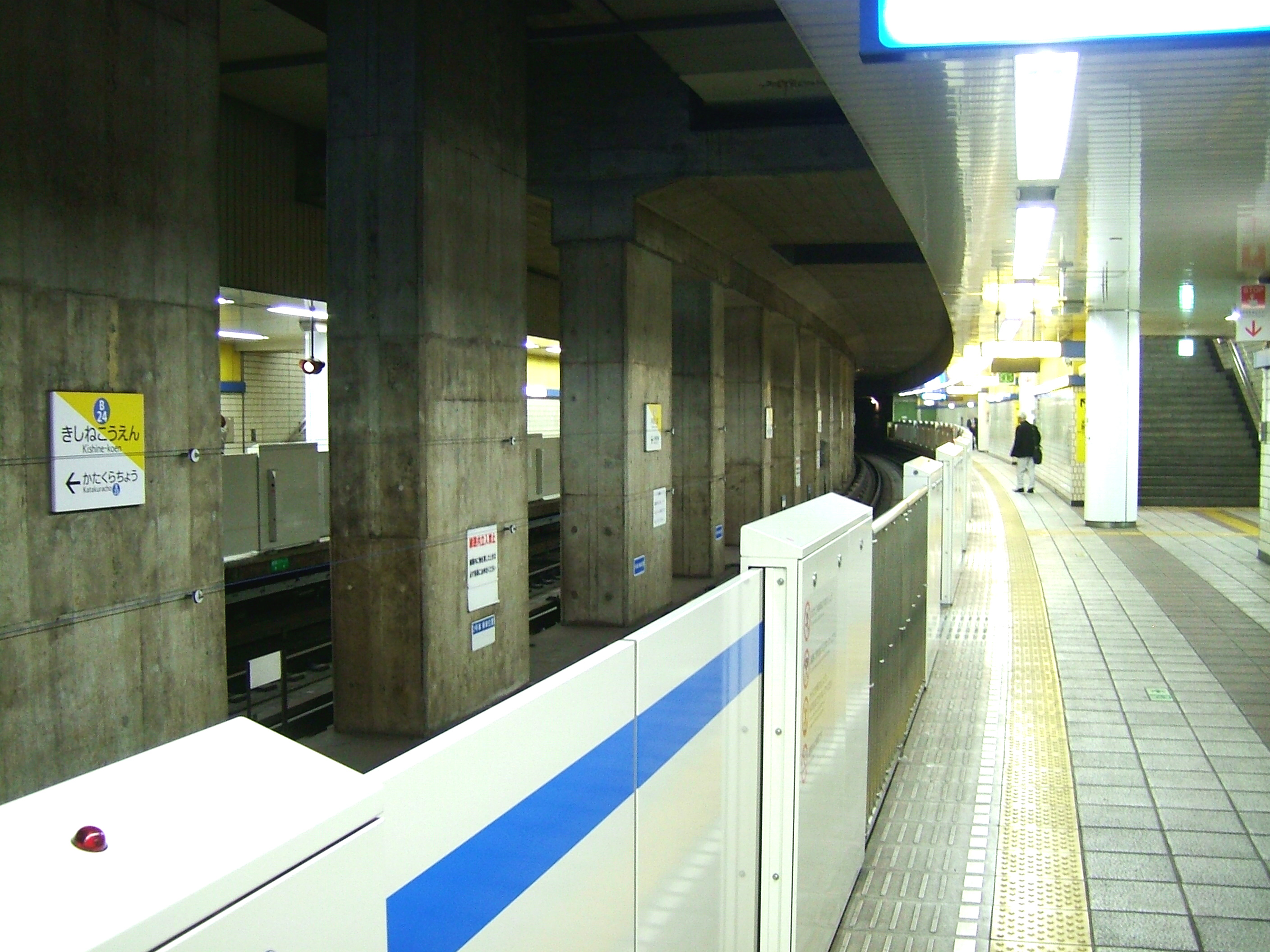 Kishine-kōen Station platform (Yokohama Municipal Subway Blue Line)